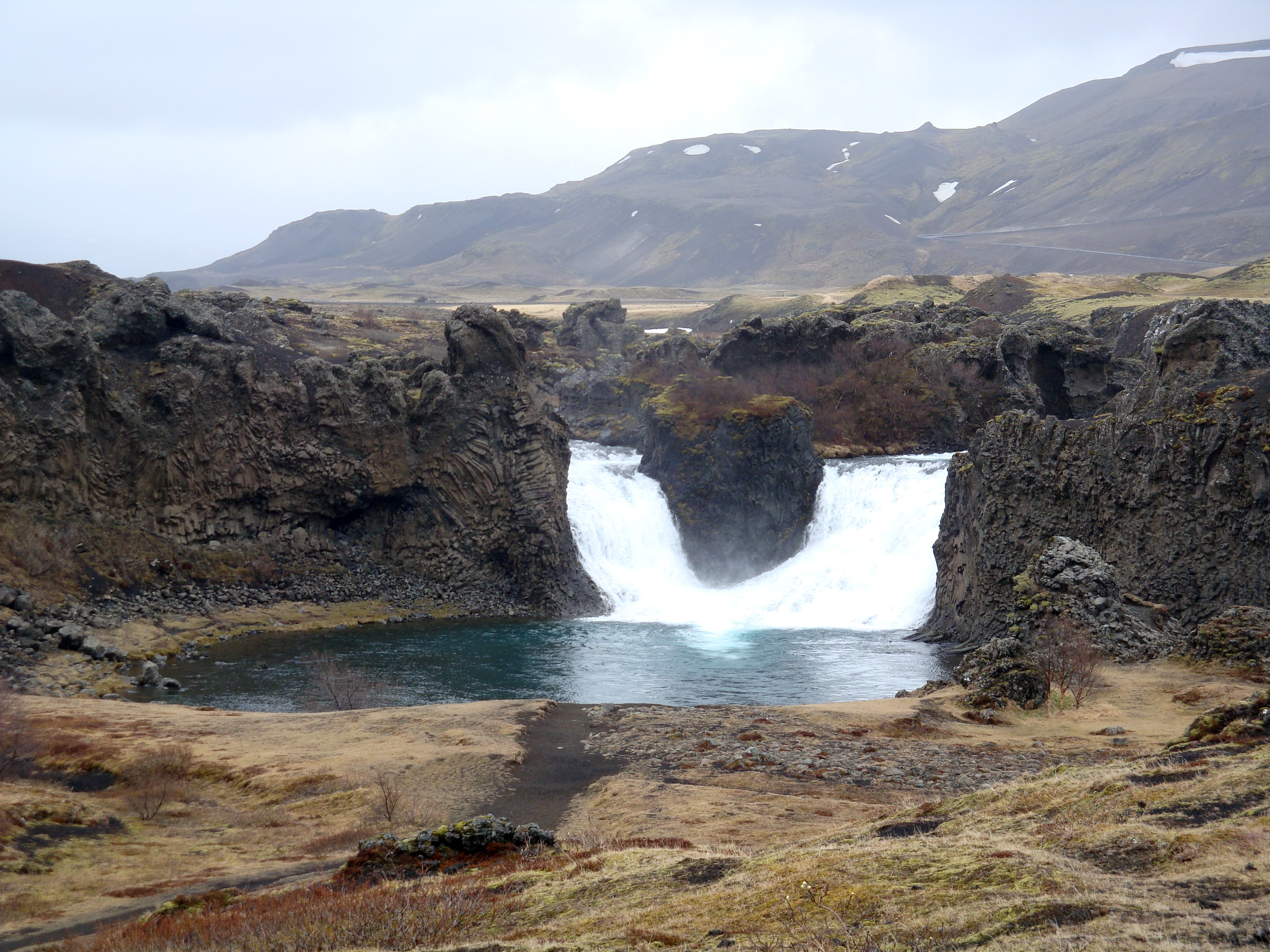 Hjálparfoss, a waterfall in south Iceland off the Fossá river